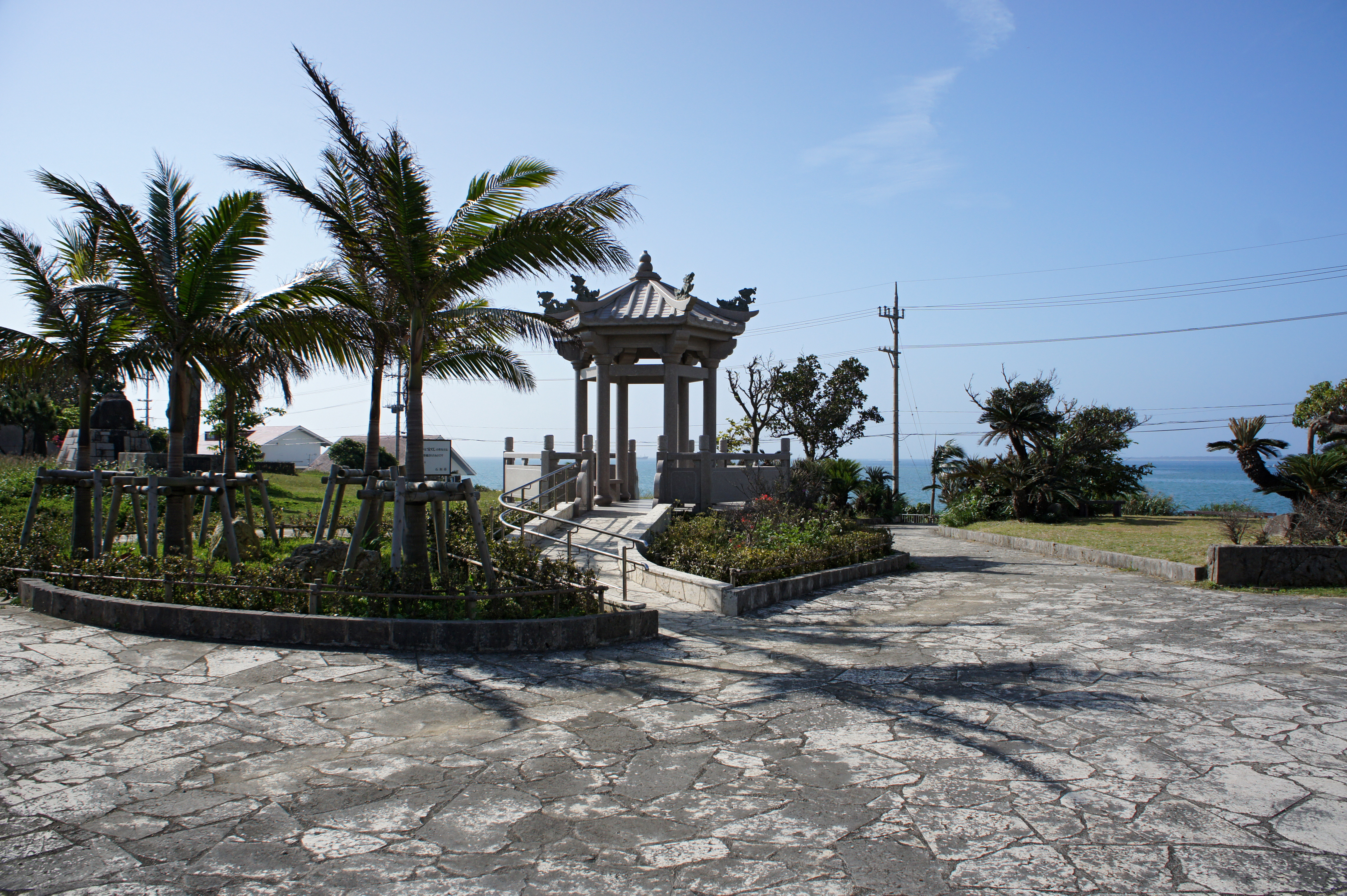 Tojin-baka in Ishigaki Island, Ishigaki City, Okinawa Prefecture, Japan.